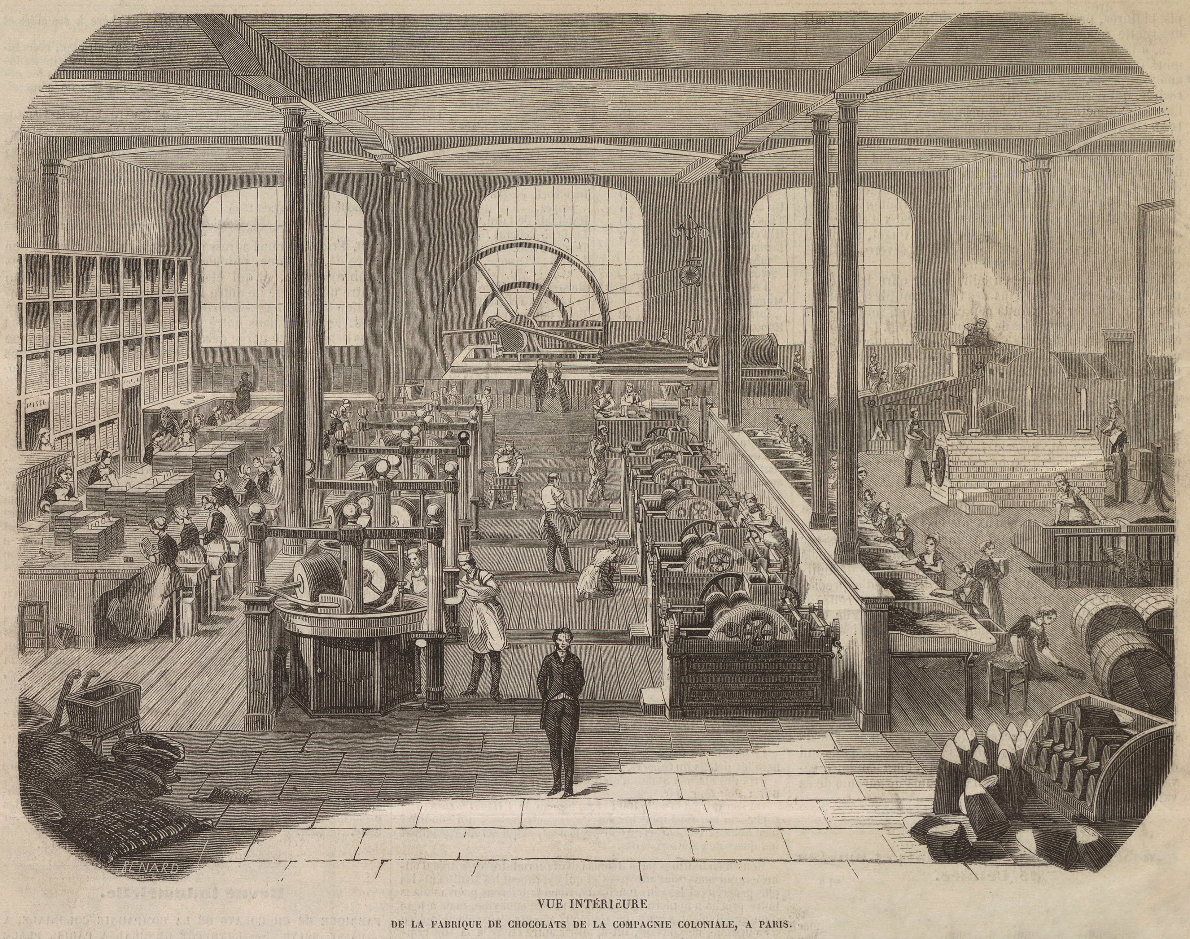 The interior of a Parisian chocolate factory.